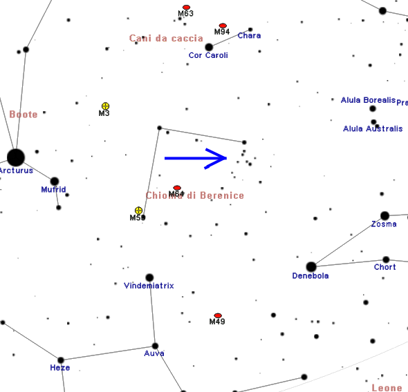 Mel 111